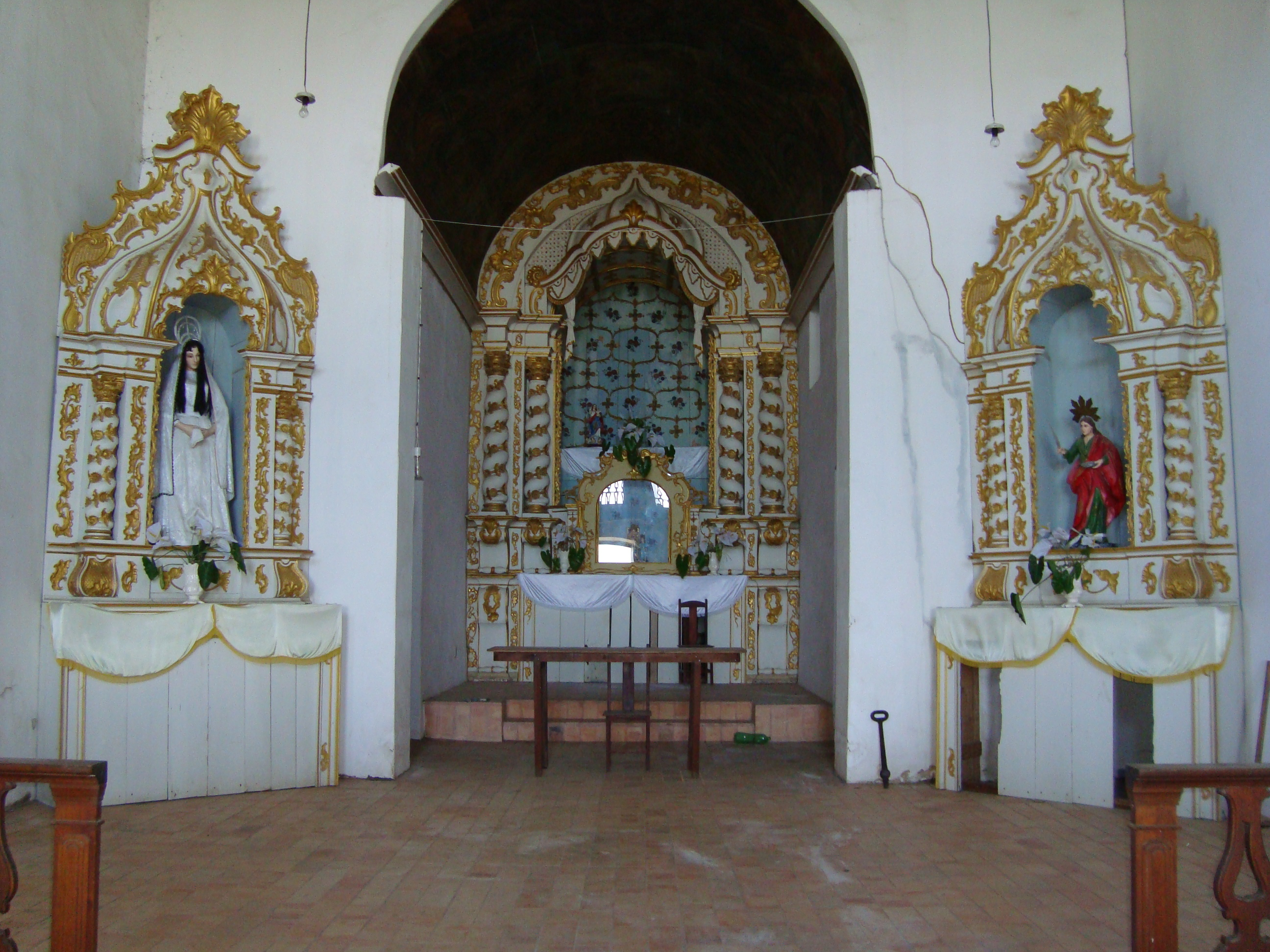 Altar-mor da Igreja do Bonfim